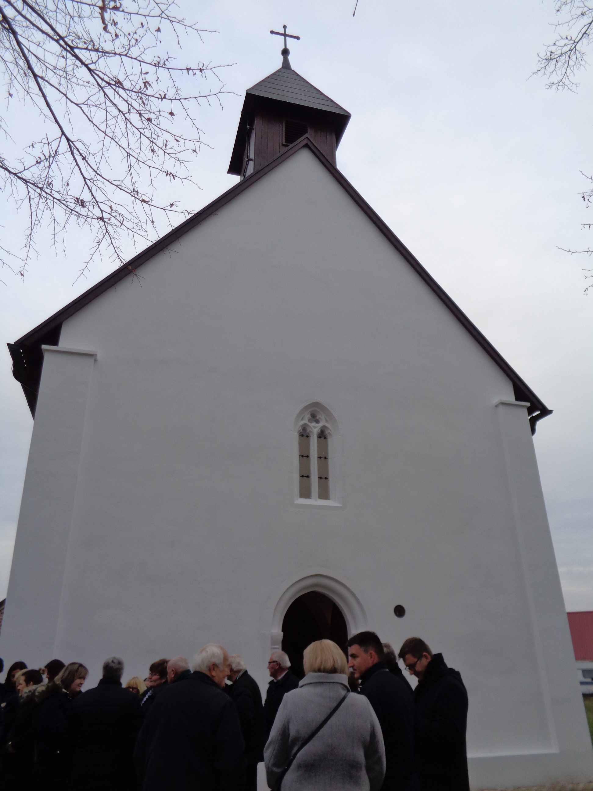 Novo Mjesto, Town of Sveti Ivan Zelina, Zagreb County, Croatia - church